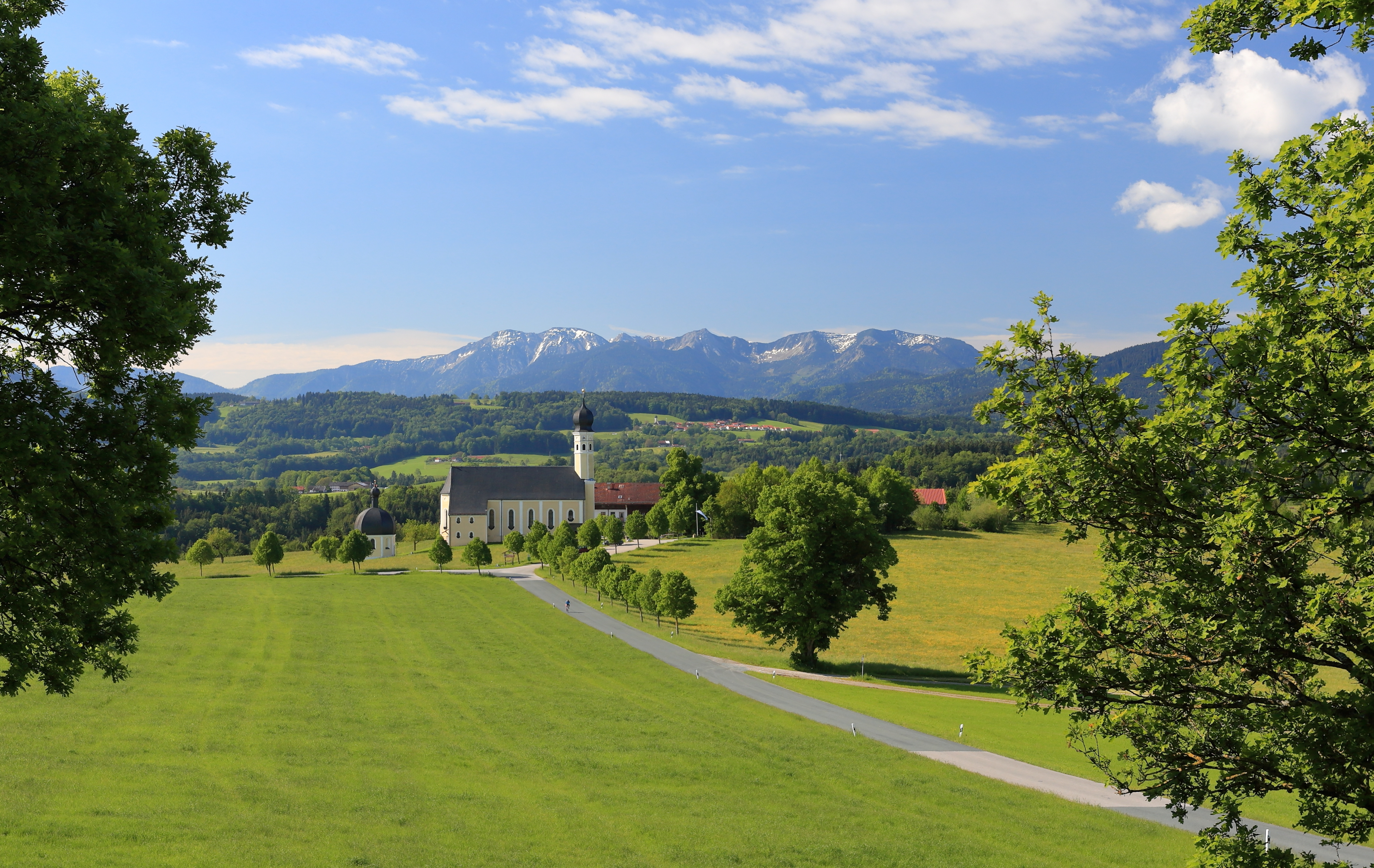 St. Marinus and Anian, Wilparting (Irschenberg), Bavaria, as seen from the north.